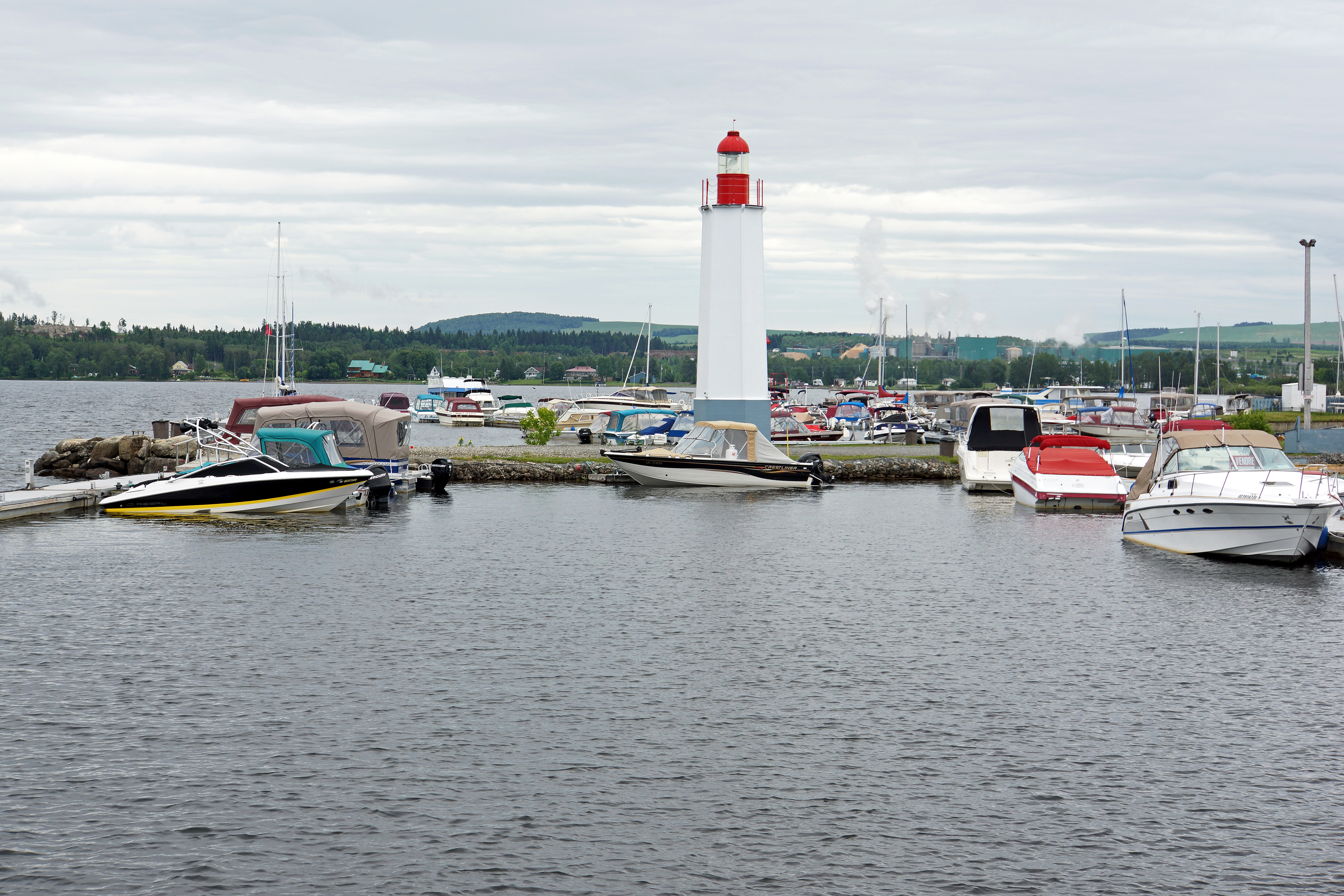 PLEASE, no multi invitations, glitters or self promotion in your comments, THEY WILL BE DELETED. My photos are FREE for anyone to use, just give me credit and it would be nice if you let me know, thanks - NONE OF MY PICTURES ARE HDR. Built in 2000, the Cabano Lighthouse is on Lake Témiscouata. It is active and is privately maintained and owned. Approx. 13m (43ft) hexagonal tower with round lantern and gallery. Lighthouse painted white; lantern and gallery painted red. Cabano is a town on the east side of Lac Témiscouata roughly halfway between Rivière-du-Loup and the New Brunswick border. Located on the south pier, near the marina in Cabano.